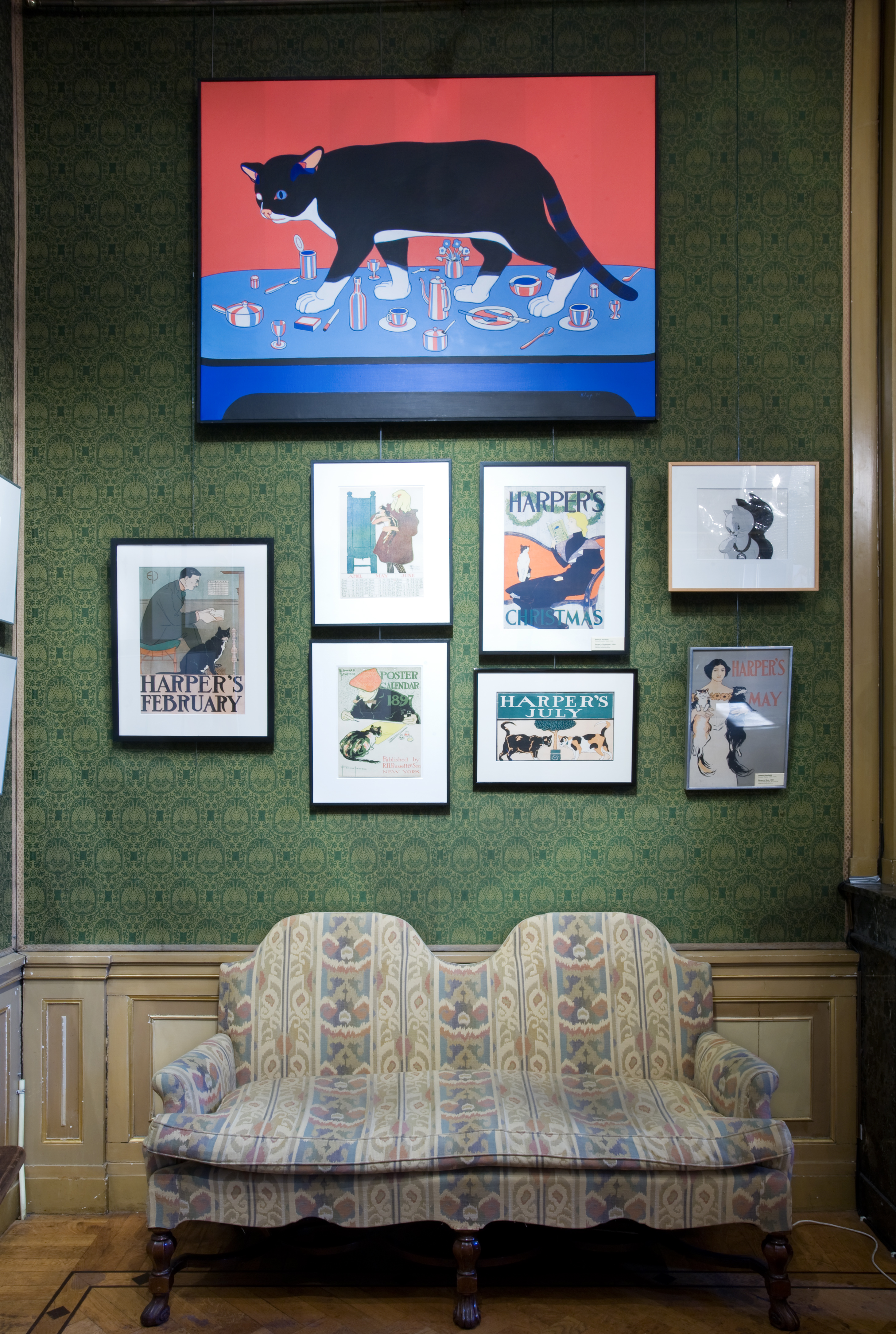 Kattenkabinet, the Cat Cabinet Museum, Amsterdam, The Netherlands